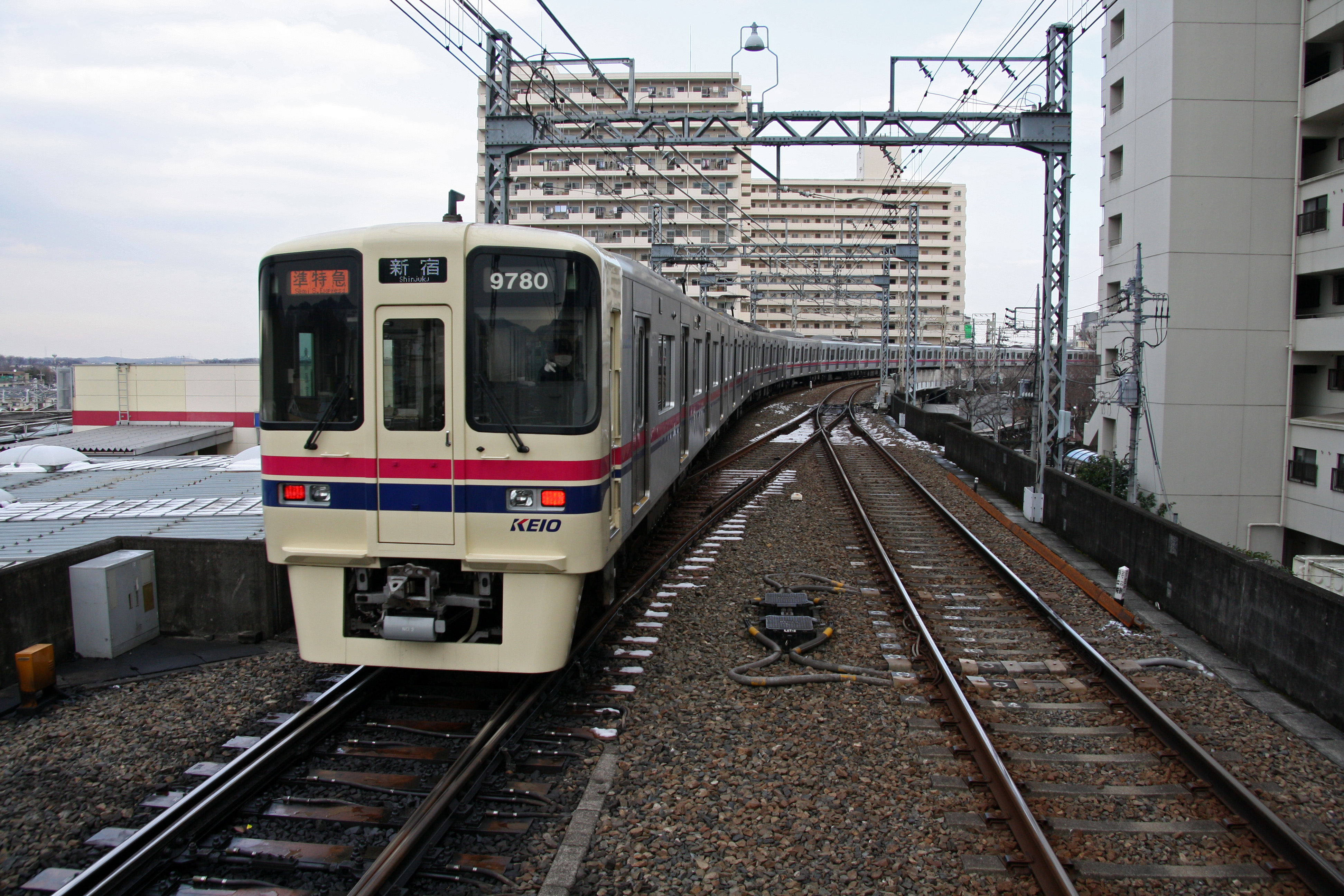 Keiō 9000 series on Keiō Takao line near Takao station.